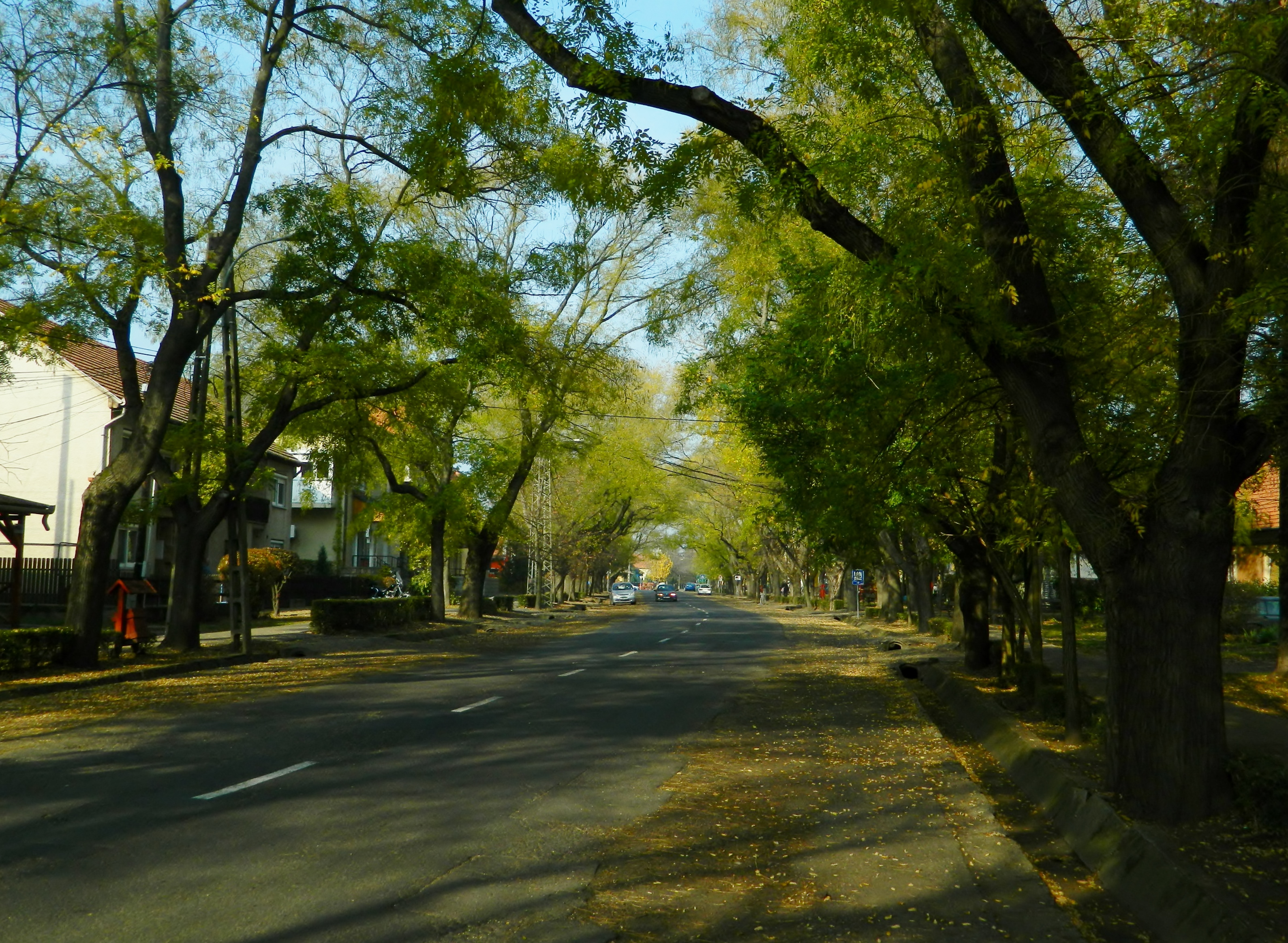 Main street in Mezőkeresztes (Dózsa György street)